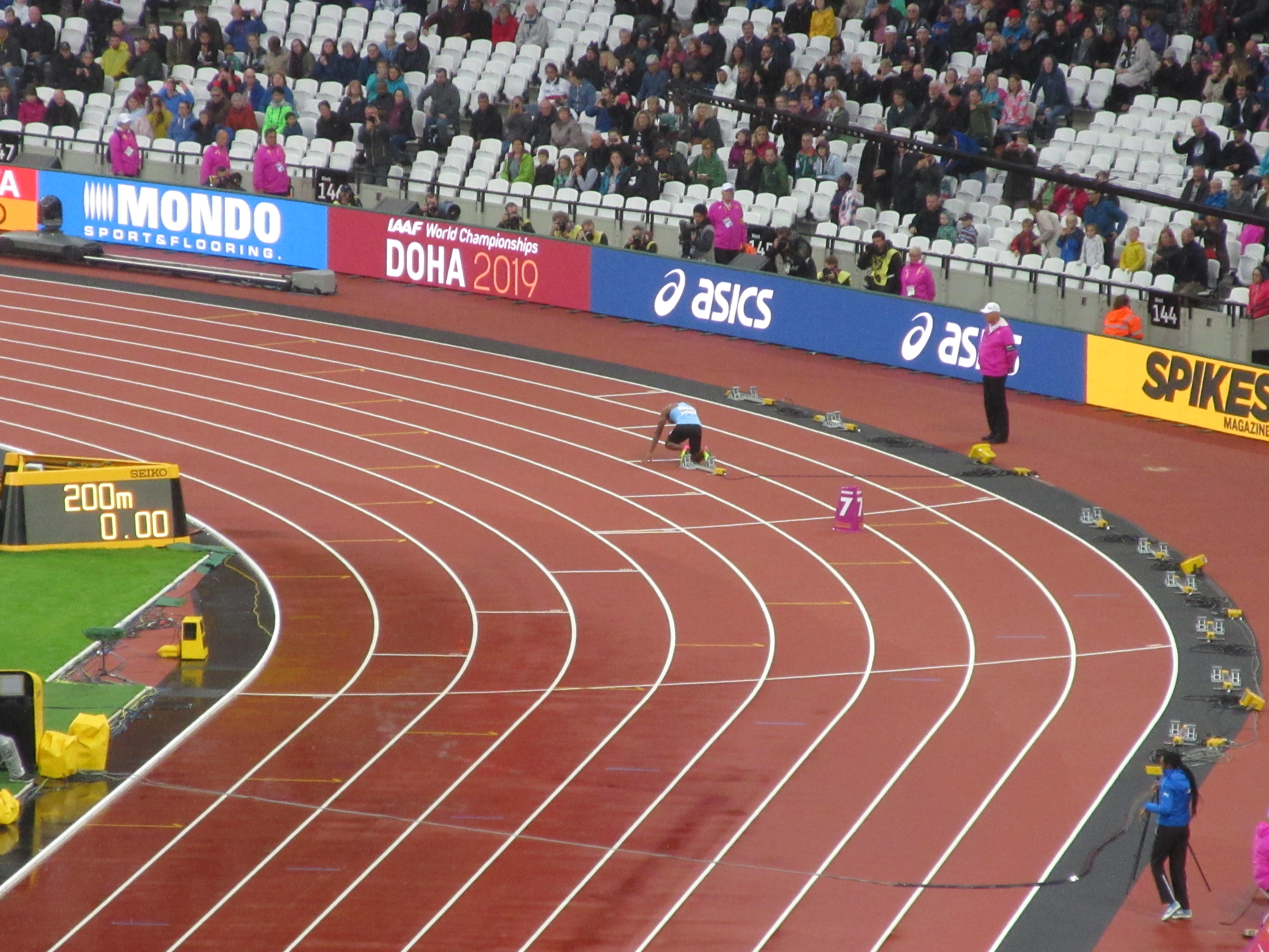 He was barred from the heats through illness, but allowed to run on his own to attempt to make the qualifying time for the semi-final (which he did)